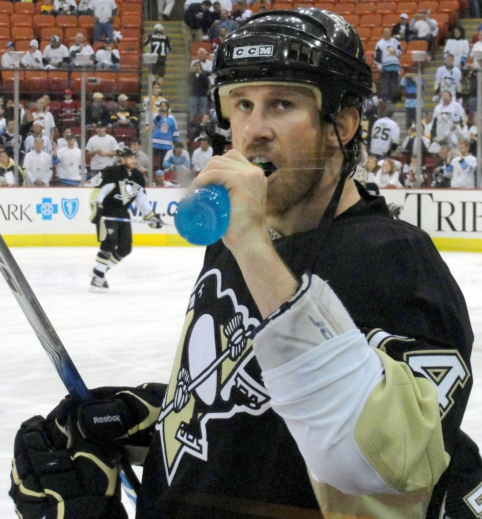 Pittsburgh Penguins defenseman Jay McKee warms up prior to a 2010 Stanley Cup Playoffs second round matchup against the Montreal Canadiens, May 8, 2010. The Pens would win 2-1 in what would be the final Penguins victory ever at Mellon Arena. The following season the Penguins moved across the street to the Consol Energy Center.